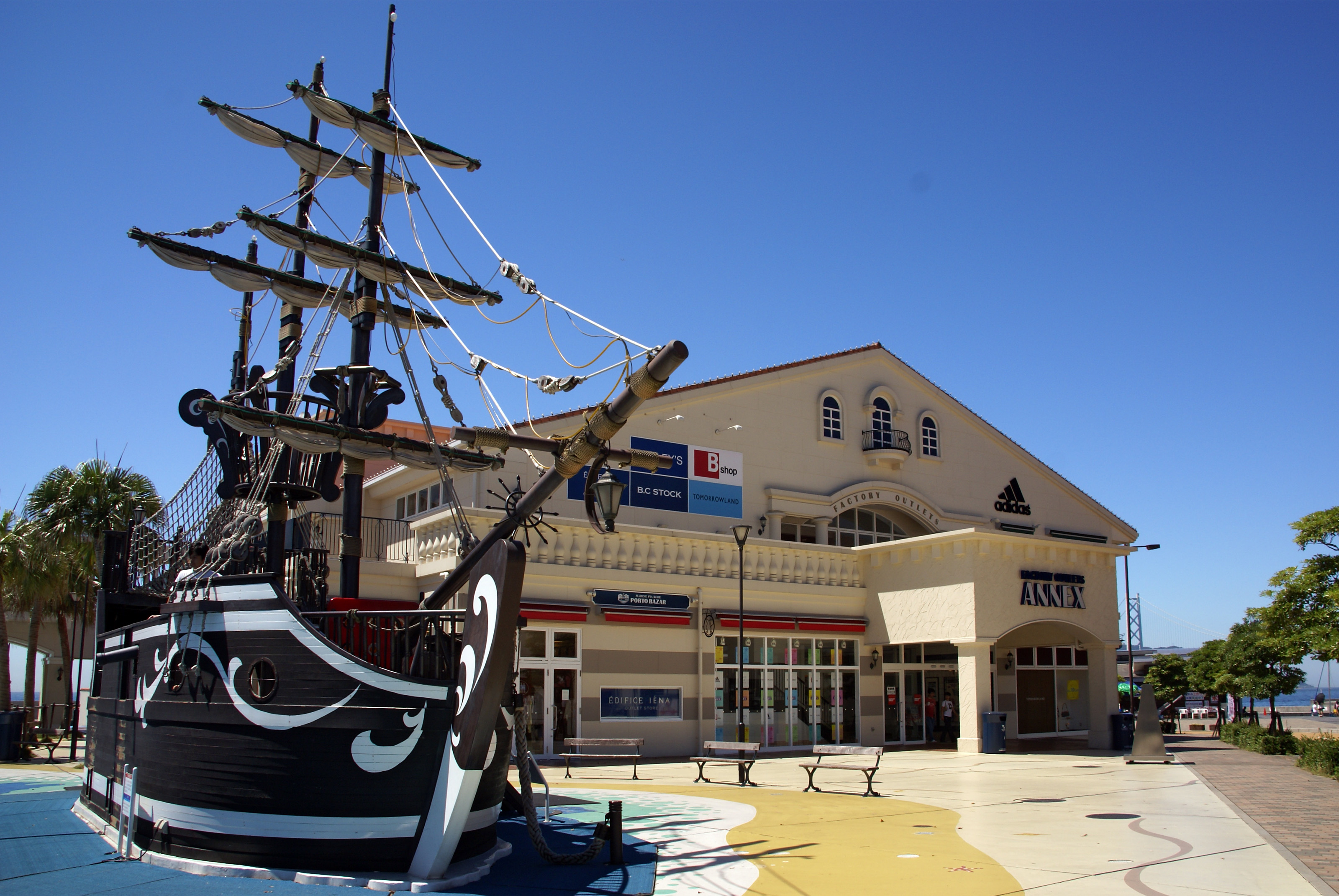 Marine pia Kobe in Kobe, Hyogo prefecture, Japan